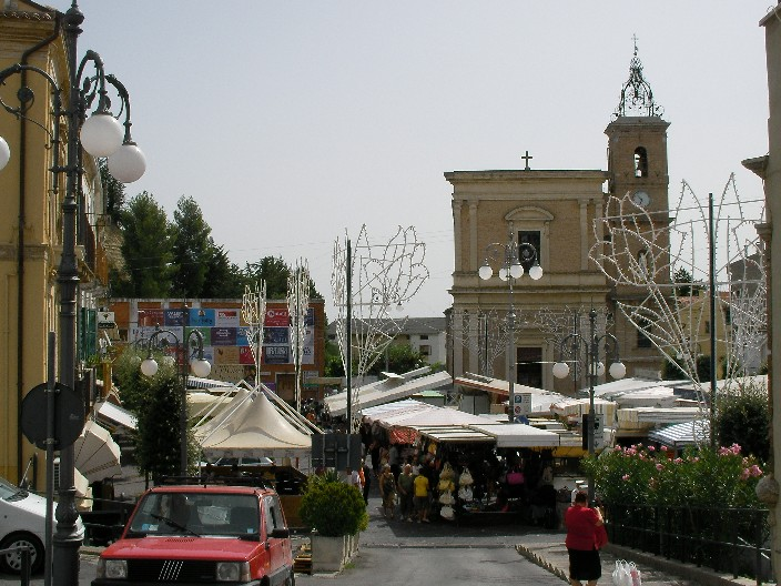 Piazza Garibaldi to Atessa in the day of market where is seen the church of St. Rocco